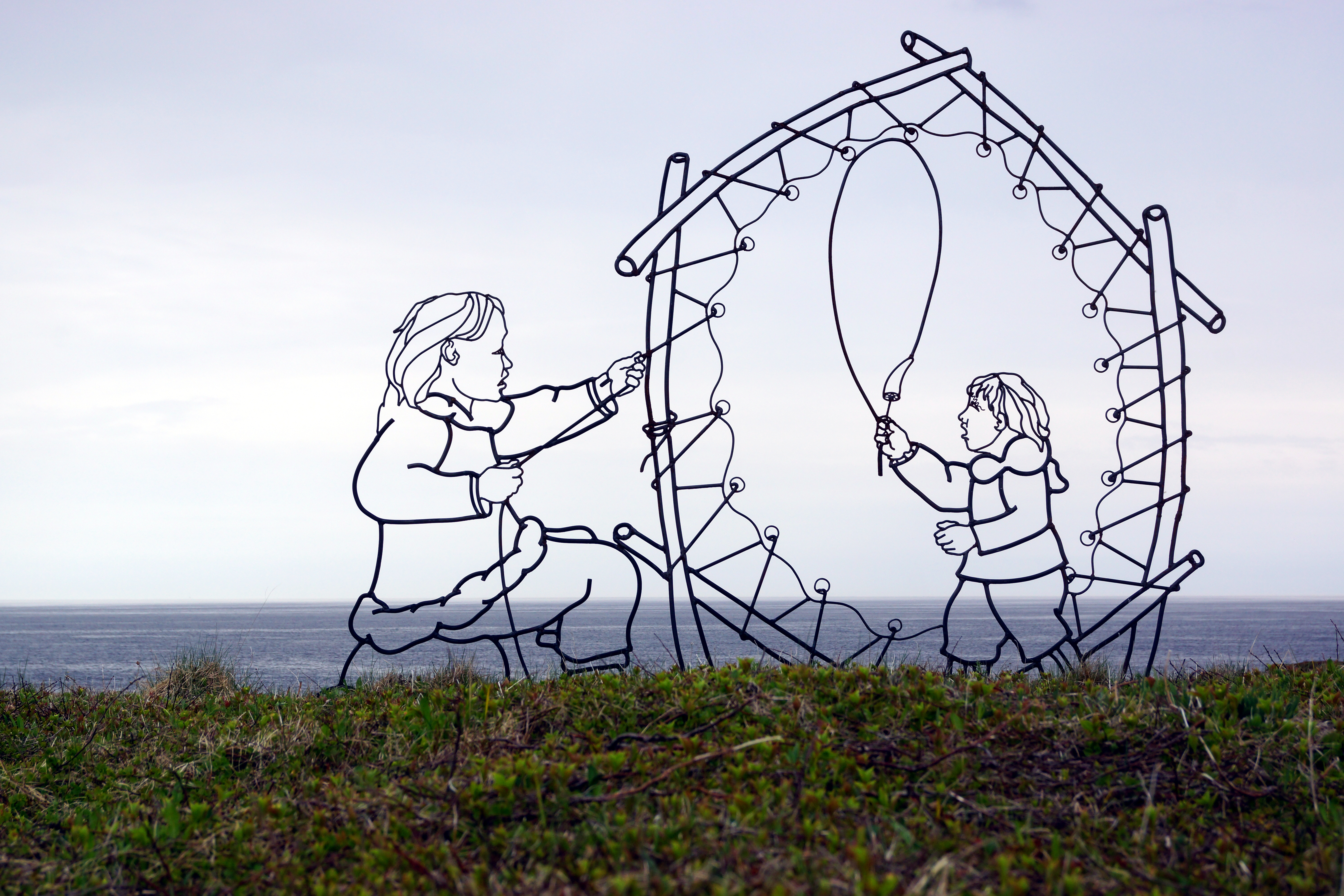 Port au Choix Artwork, Newfoundland, Canada.